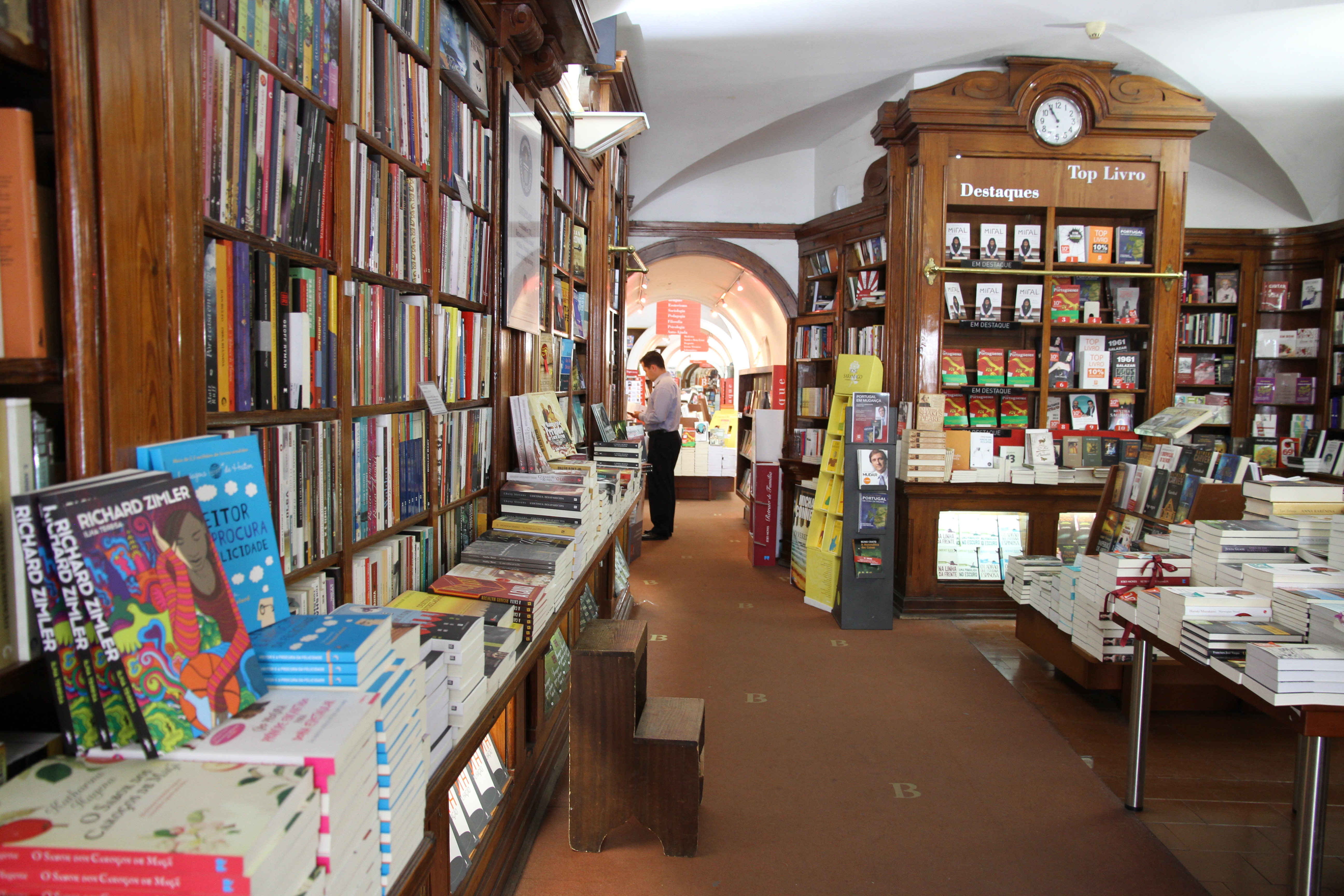 A livraria Bertrand.